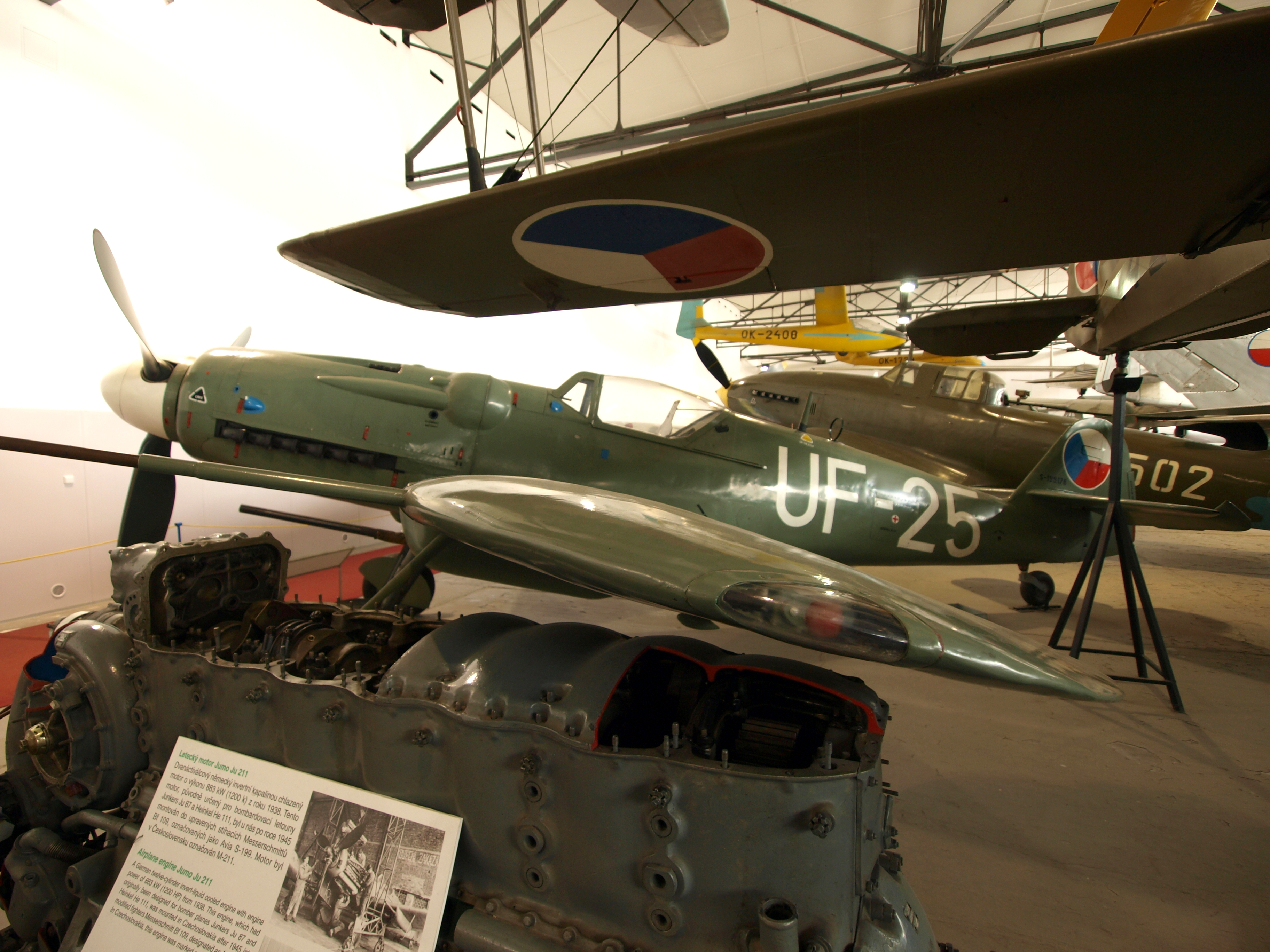 Avia S-199 (Czech version Messerschmitt Bf 109G/K) (UF 25). Photograph taken without a tripod (was not allowed!).